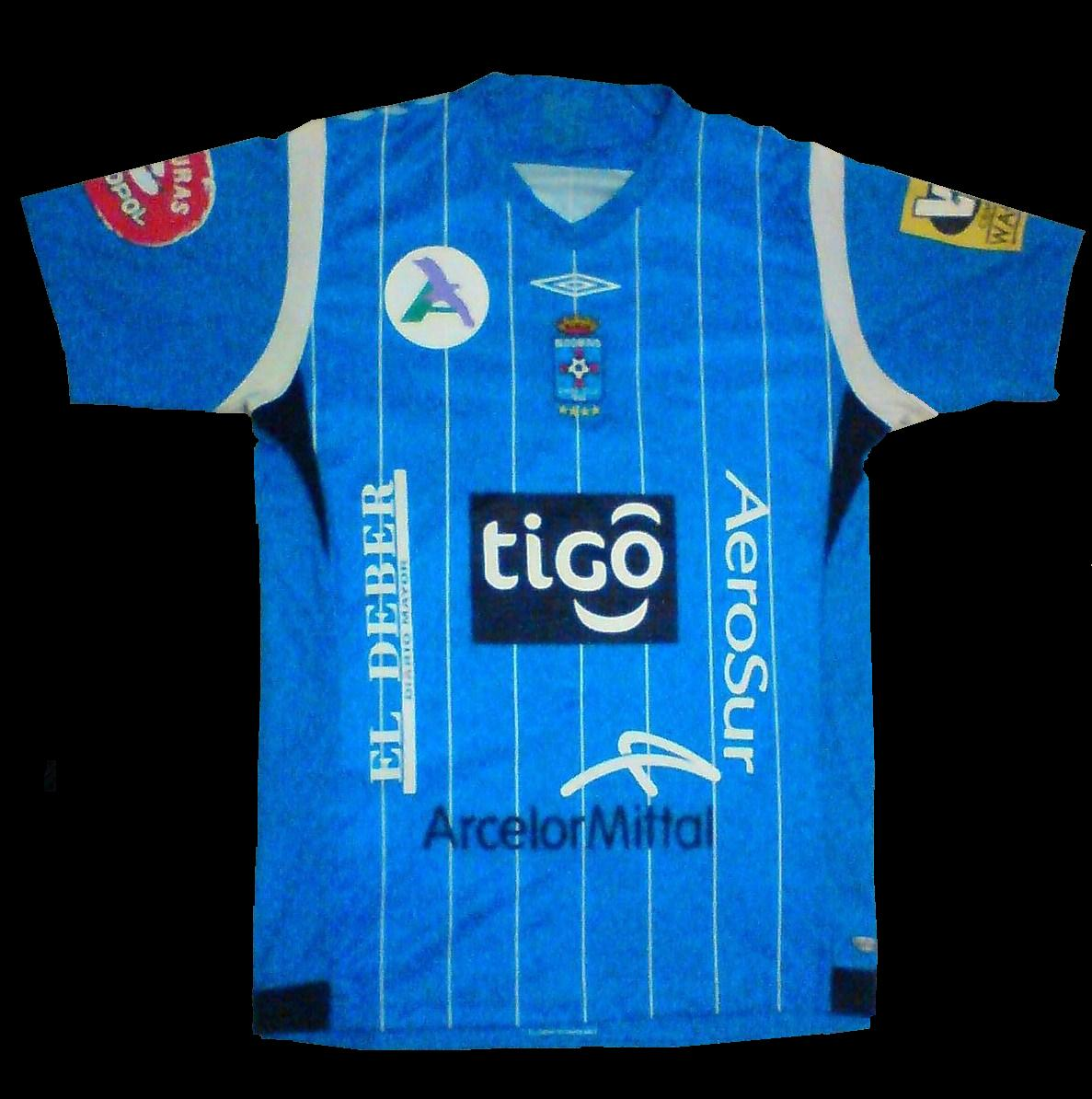 Jersey of Blooming 2009 - Home